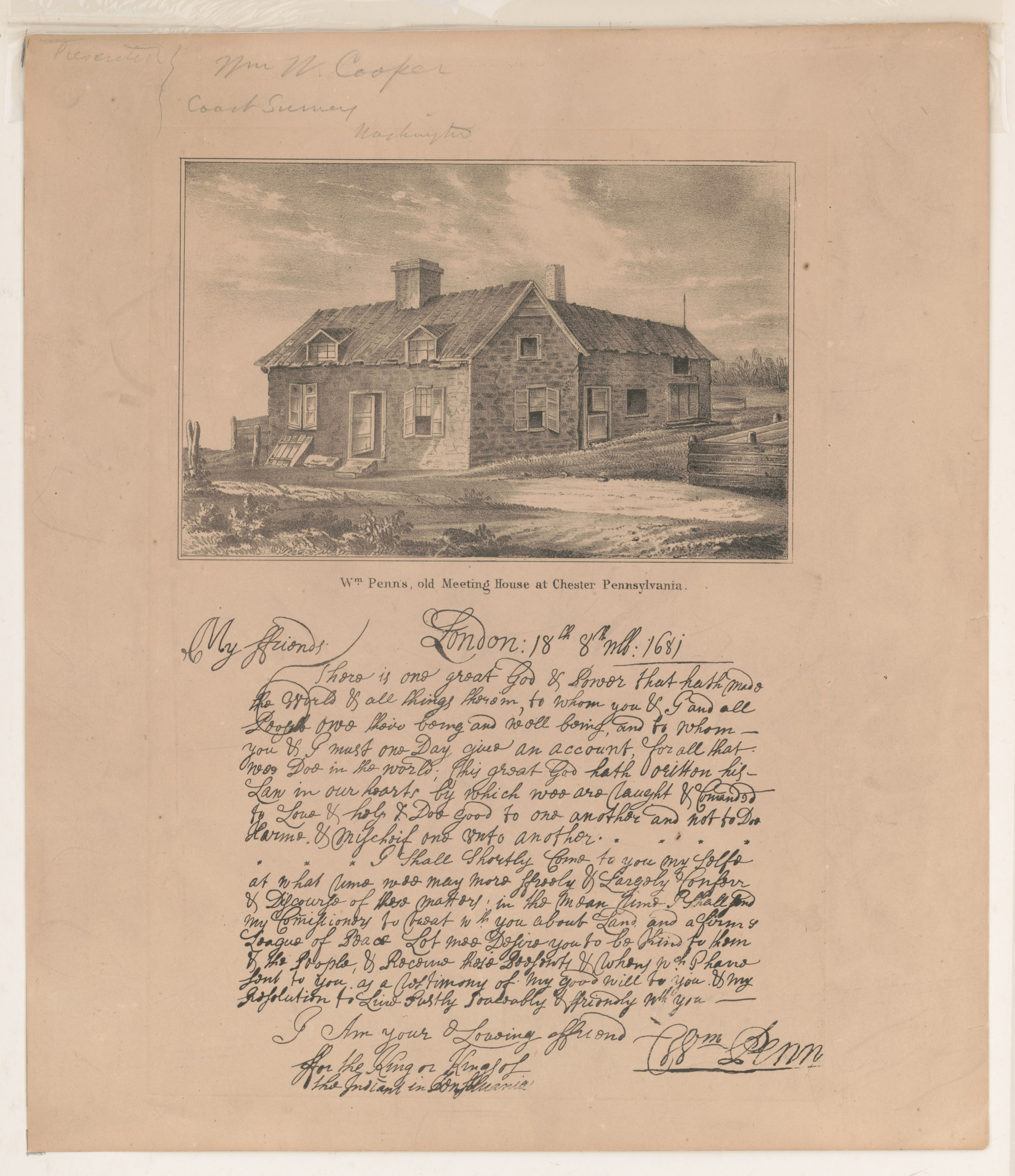 Title: Wm. Penn's old meeting house at Chester Pennsylvania Physical description: 1 print. Notes: Associated name on shelflist card: Wm. Penn.; This record contains unverified data from PGA shelflist card.; Lithograph, b. & w.